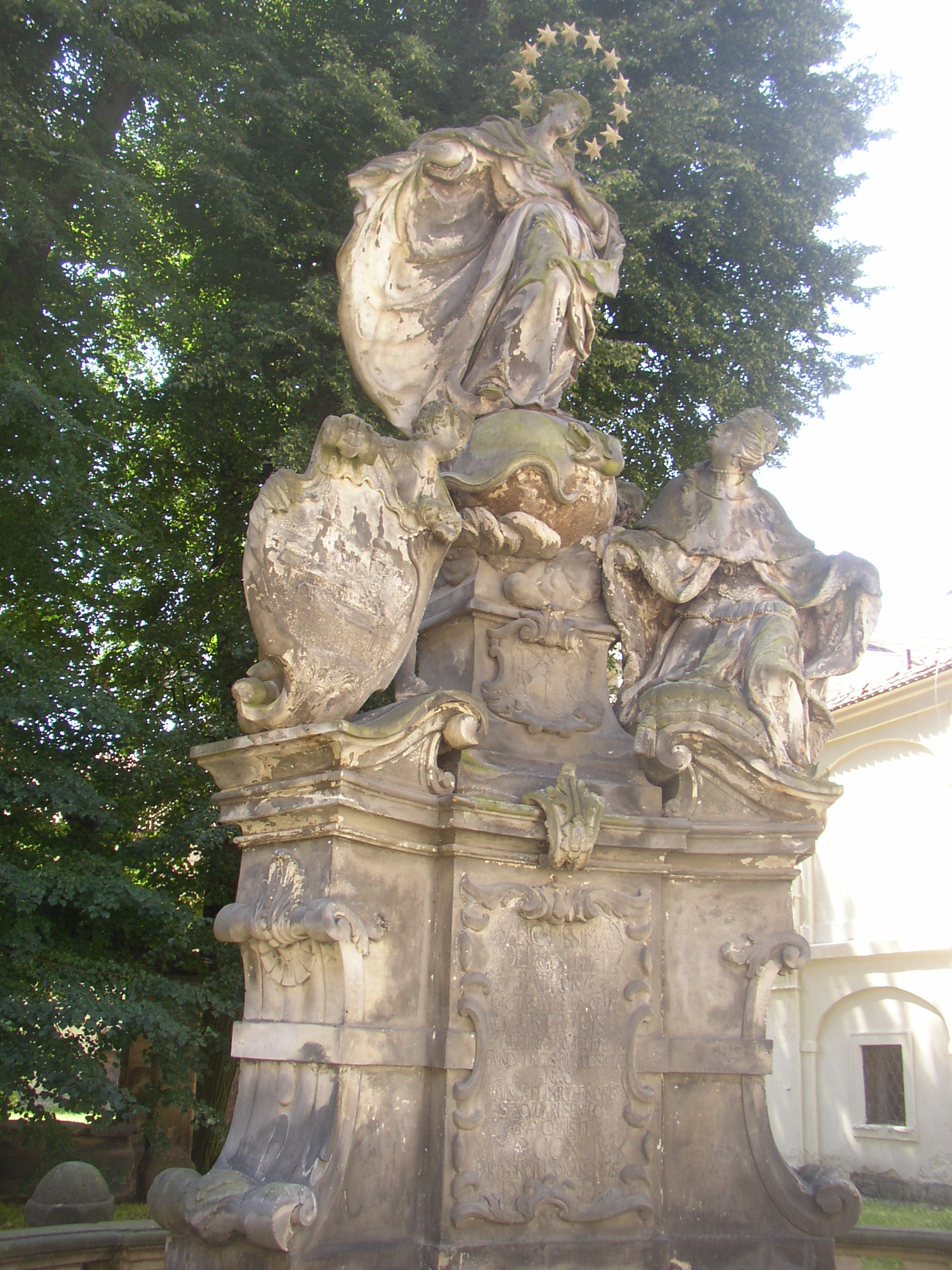 Sculptural group of Virgin Mary and Duchess Gertruda in second courtyard of female Premonstratensian convent in Doksany, Litoměřice District, Czech Republic. The sculpture was commissioned in 1744 for 600th anniversary of foundation of the Convent by Vladislav II, Duke of Bohemia, and his spouse Gertruda of Babenberg.